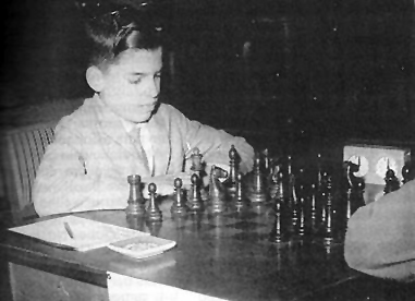 Henrique Mecking at 12, in 1964.